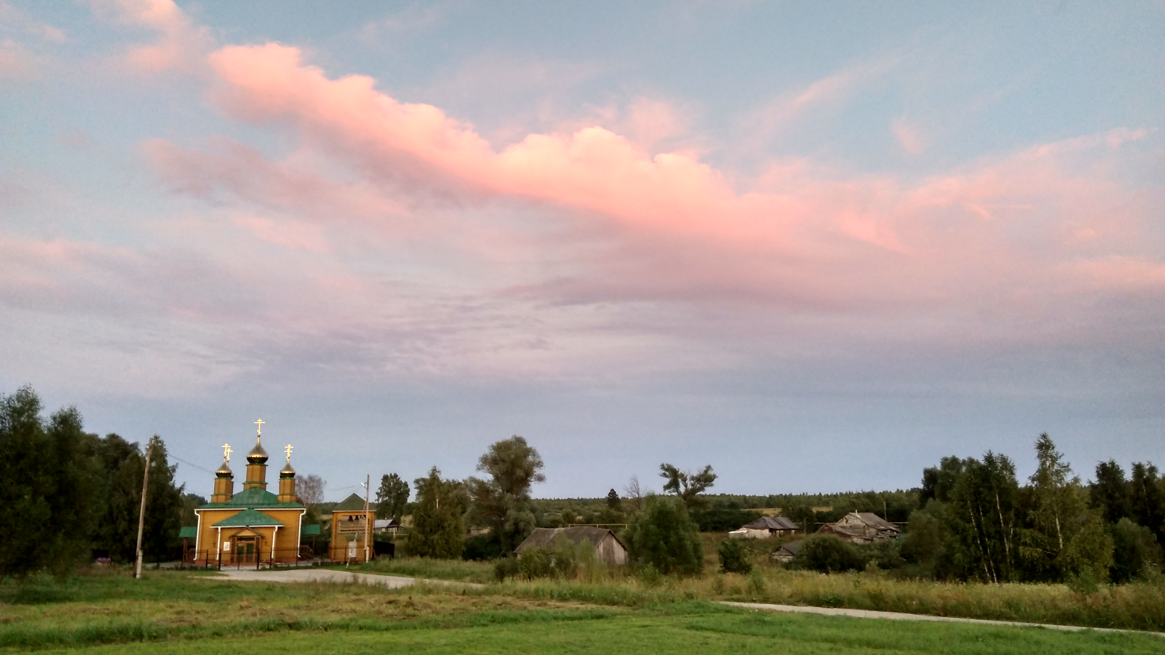 село Николай Дар